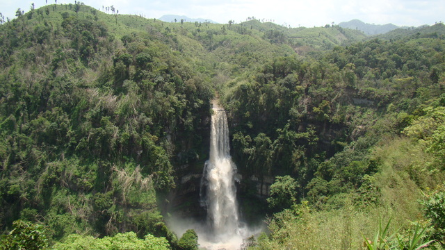 Vantawng waterfall